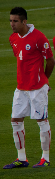 Mauricio Isla before the match between Uruguay and Chile on 11/11/11